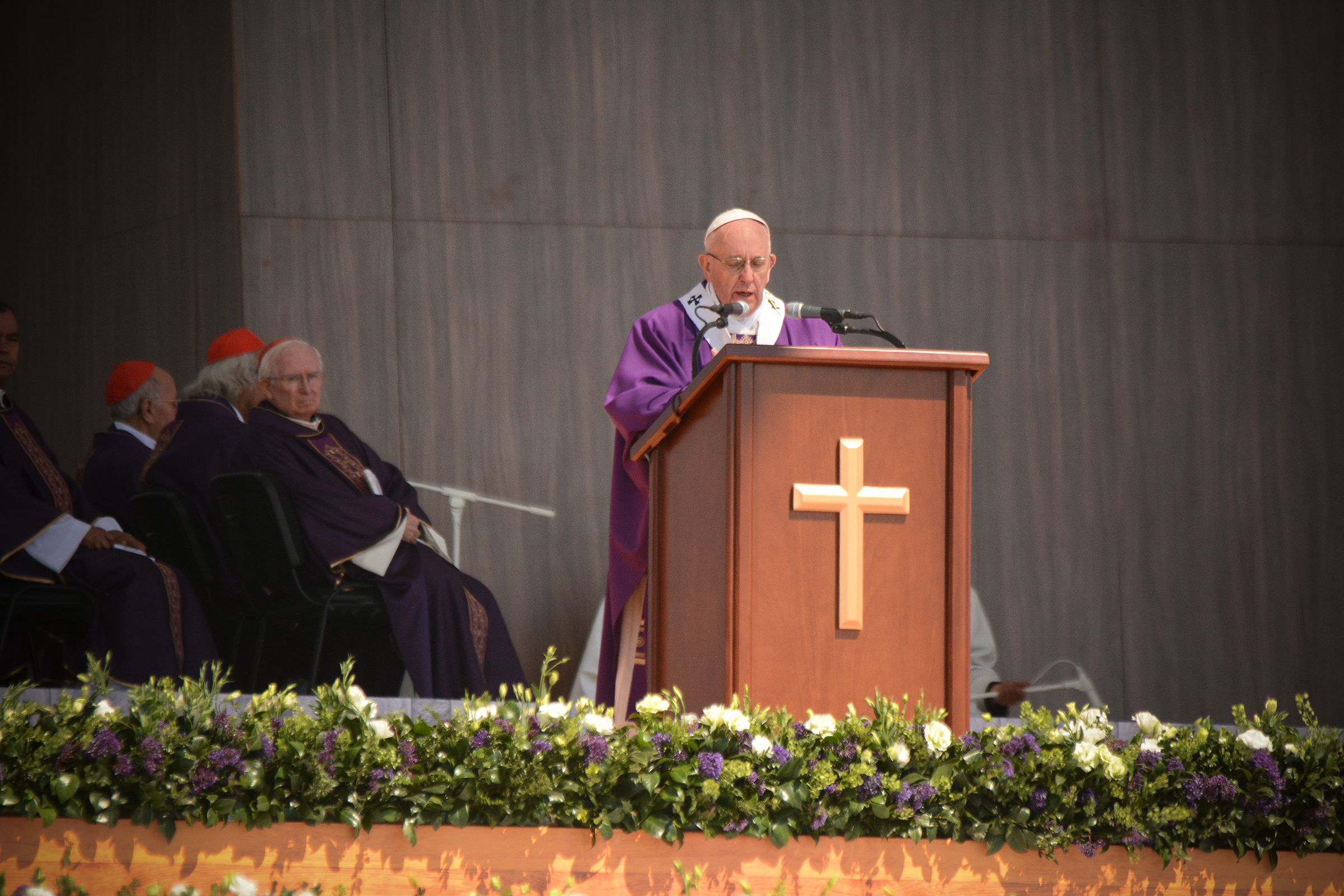 ECATEPEC,MEXICO: Hundreds of thousands of faithful flock to the capital city of Ecatepec to participate in the Mass celebrated by Pope Francis on 14 February 2016.